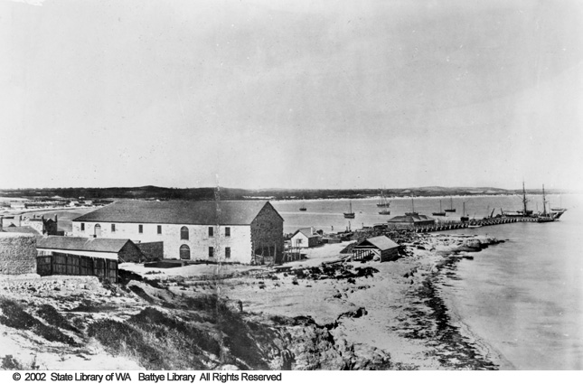 1870. one ship, Femantle Jetty and Bathers Beach, Fremantle also known as Whalers Beach is a section of coastline which has a recorded since the European settlement of Fremantle, Western Australia.